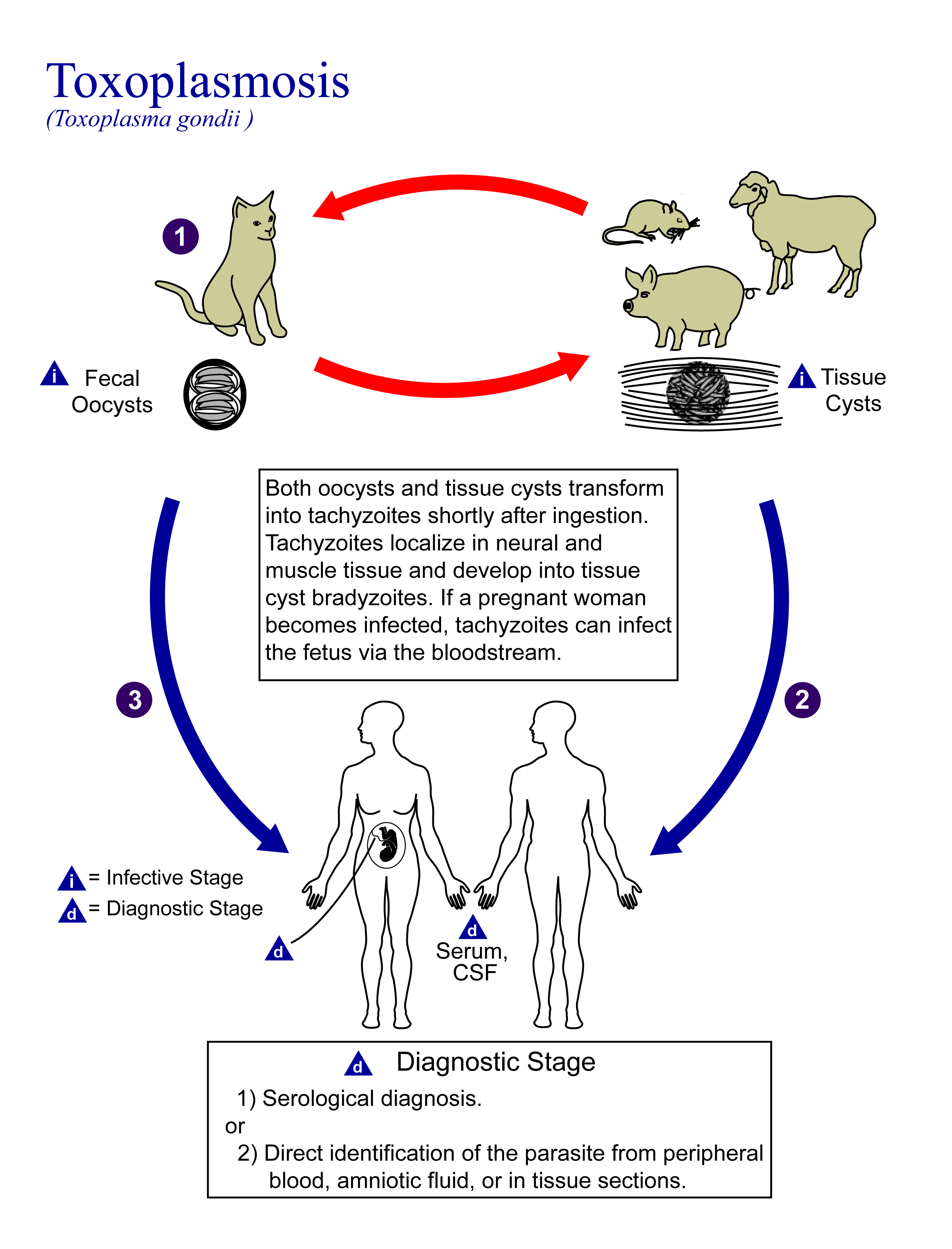 This is an illustration of the life cycle of Toxoplasma gondii, the causal agent of toxoplasmosis.